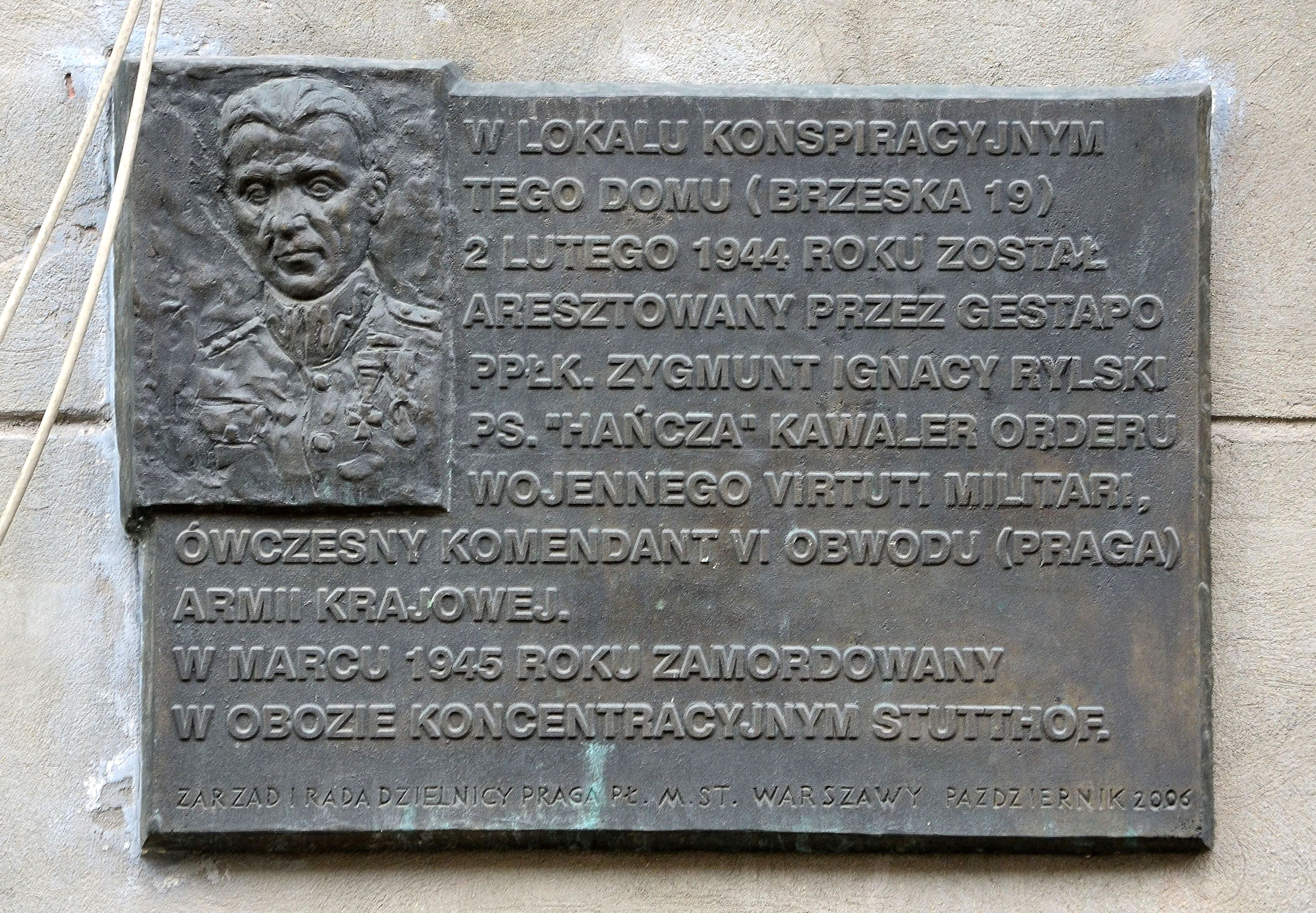 Plaque commemorating the arrest of Zygmunt Rylski at 19 Brzeska Street in Warsa